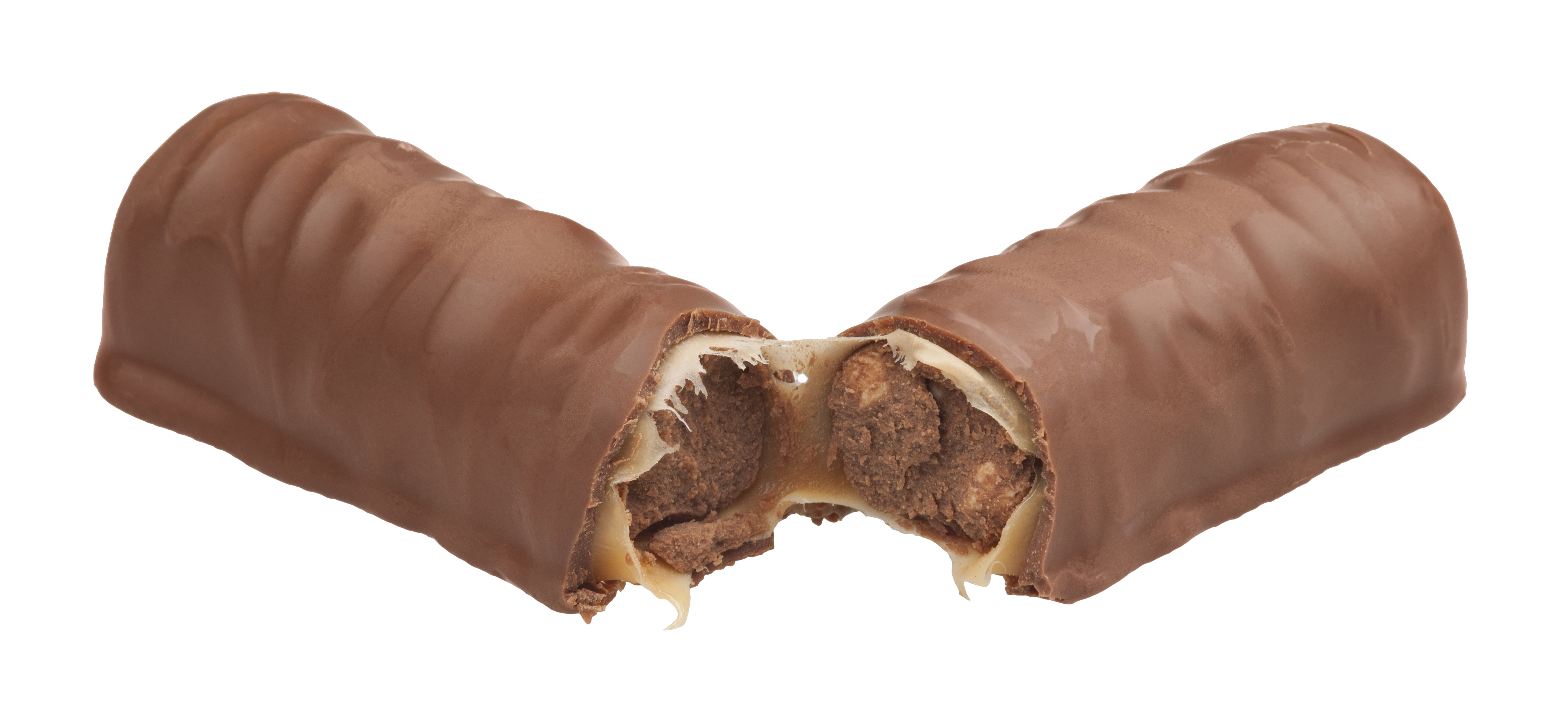 An Irish Cadbury Moro candy bar that has been split in half.